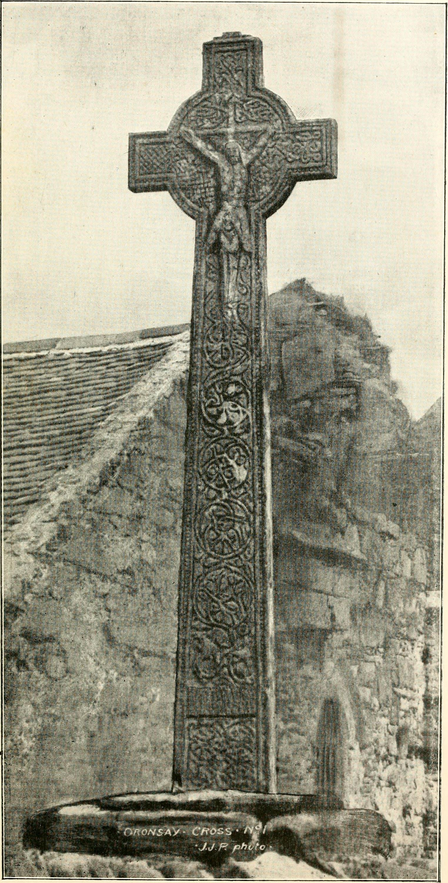 Title: Journal of the Royal Society of Antiquaries of Ireland Year: 1849 (1840s) Authors: Royal Society of Antiquaries of Ireland Royal Society of Antiquaries of Ireland. Transactions Royal Society of Antiquaries of Ireland. Proceedings and transactions Royal Society of Antiquaries of Ireland. Proceedings and papers Subjects: Publisher: Dublin, Ireland : The Society Text Appearing Before Image: worked out its designs with such wonderful skill andpatient elaboration on the pages of the Gospels and Psalters, andtransferred them subsequently to the metal-work and stone-work of theperiod intervening between the age of the best manuscripts and thetwelfth century. This cross is supposed to have been erected to the memory of Colin,a prior, who died in 1510; as it bears the inscription, IIcbc est CruxColini Filii Cristi. On the socket-stone there is a much-worn inscrip-tion which it is impossible to decipher. Cross No 2.—Standing in a pile of masonry at the north-east of thel)riory buildings is the lo vrer stone of the shaft of another cross, 3 feet3 inches high, one of its faces worn smooth, the other covered withintertwining scrollwork of stems, terminating in broad-leaved foliage.This stone is surmounted by a disc which did not belong to it originally,judging from the character of its sculpturing (we are informed that ^ Scotland in Early Christian Times, Second Series, p. 130. Text Appearing After Image: Oronsay Great Cross (Xo. 1). West face.